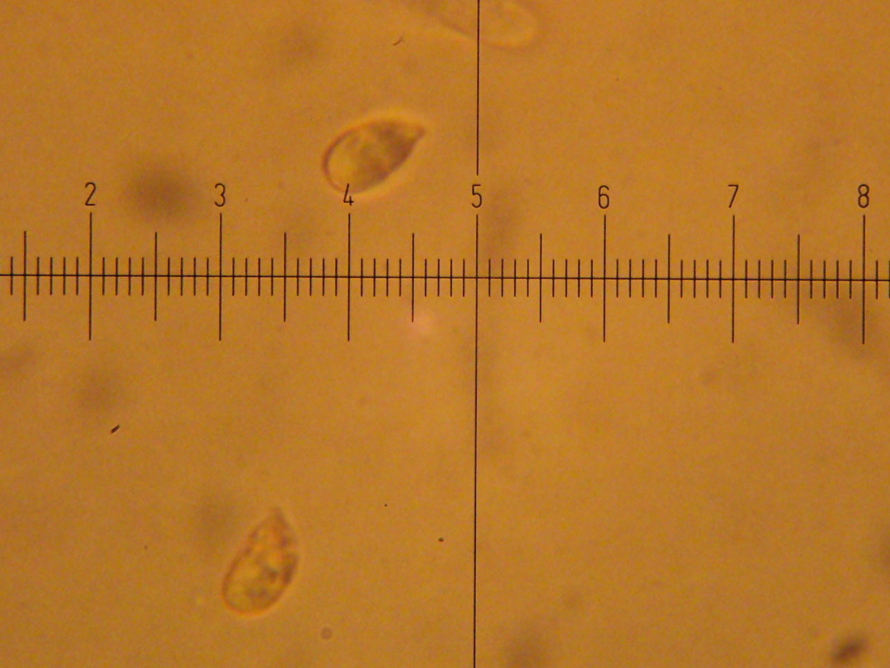 The basidiospores of the mushroom Hygrophorus agathosmus (Fr.) Fr. Magnification at 1000x.